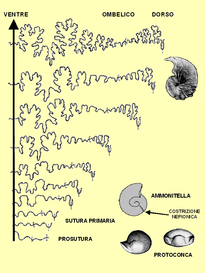 example of ammonite ontogeny study based on the sutural pattern (redraft from Palframan, 1966). text in italian